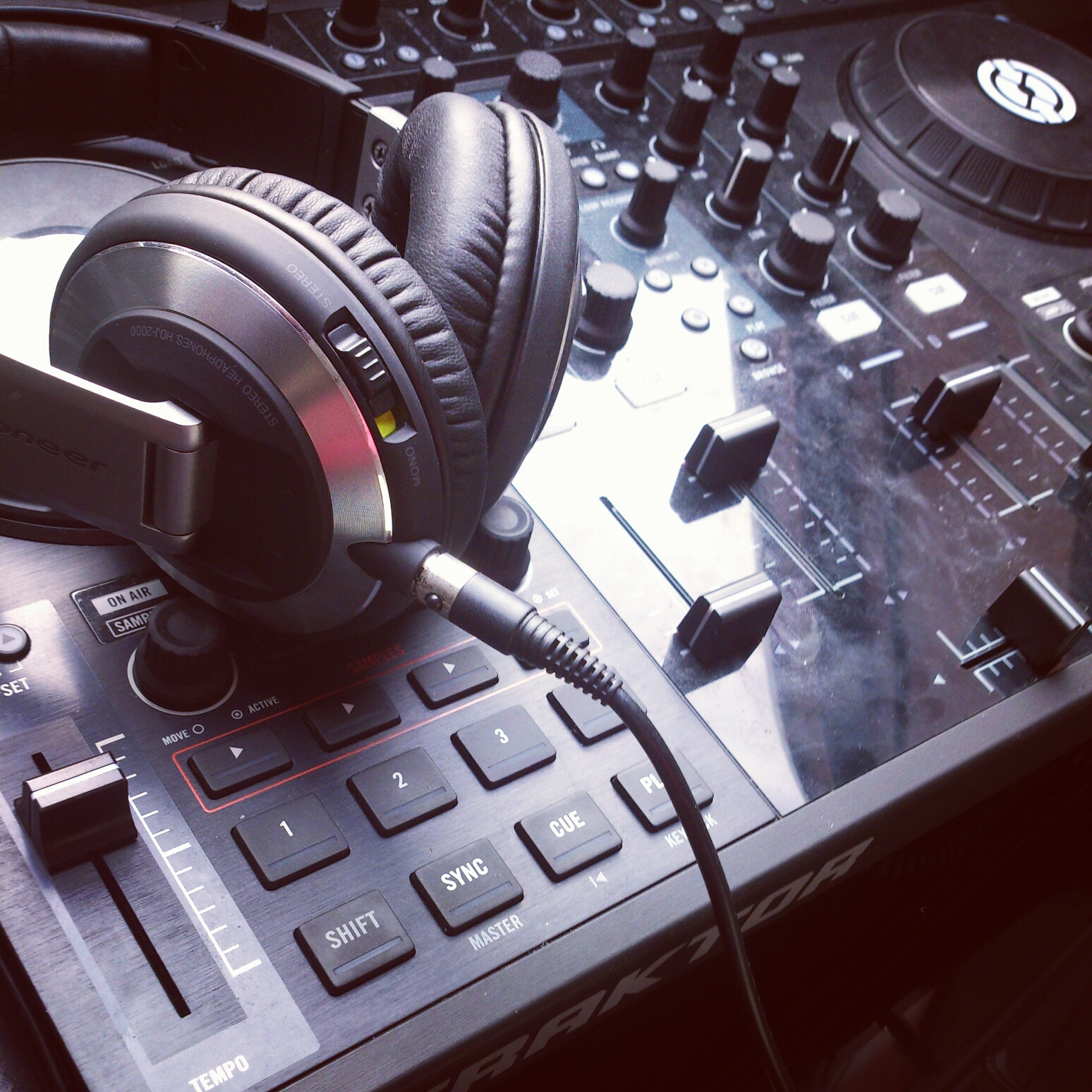 Taking a breather Taken while spinning one of my sets. The Pioneer HDJ-2000 headphone rests a bit on the Native Instruments Traktor Kontrol S4.